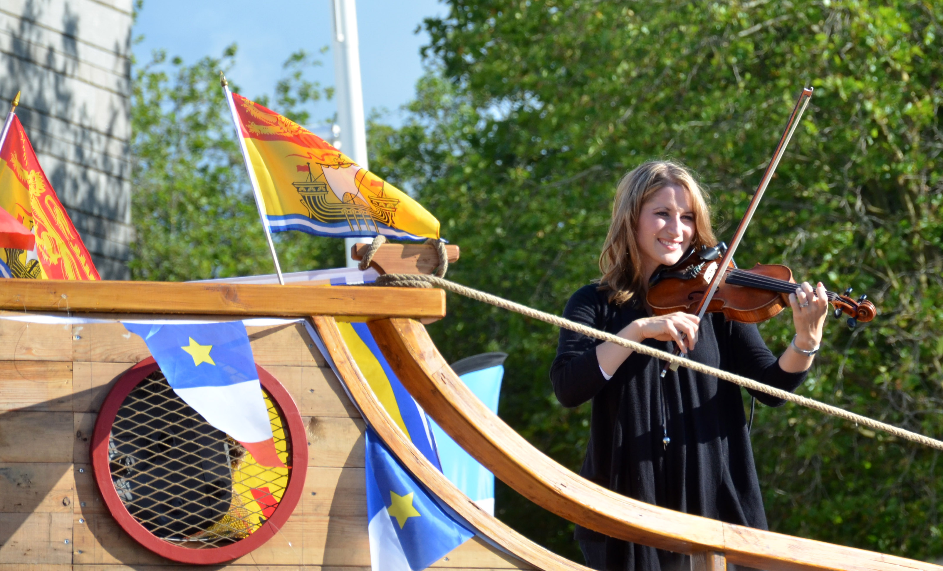 Dominique Dupuis, the morning of August 5, 2012 at the "Grande Parade Celtic nations" of Lorient Inter-Celtic Festival or "FIL" D. Dupuis (wich came in for the first time ten years ago when she was 10 years old) in 2012 was one of the guests of honor at the 42nd edition of the FIL. She was this day at the head of the procession.